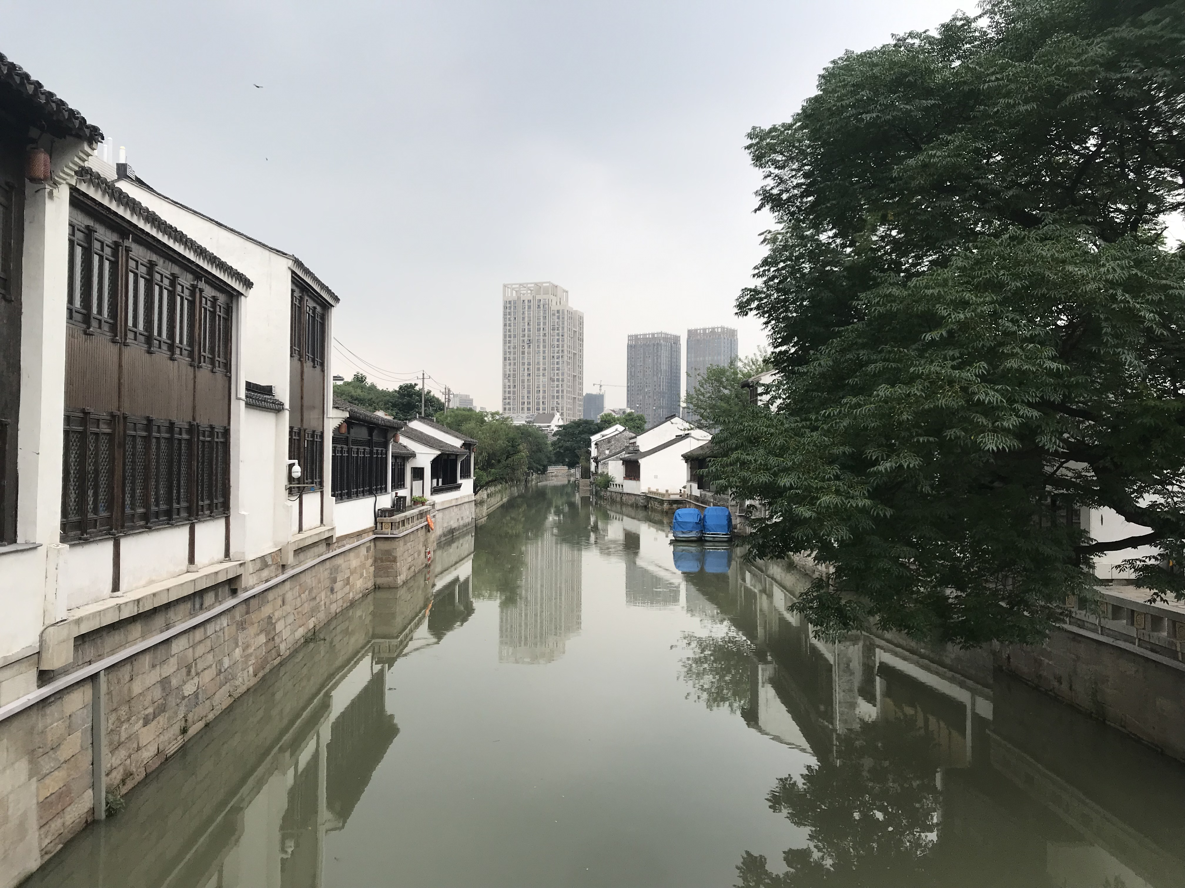 201907 Views from Nanshi River